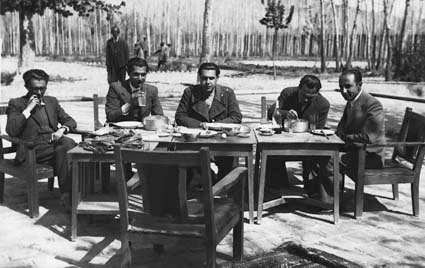 Andre Sevruguin, Mojtaba Minavi, Gholamhosein MInbashian, Masoud Farzad, and Sadegh Hedayat, near Tehran